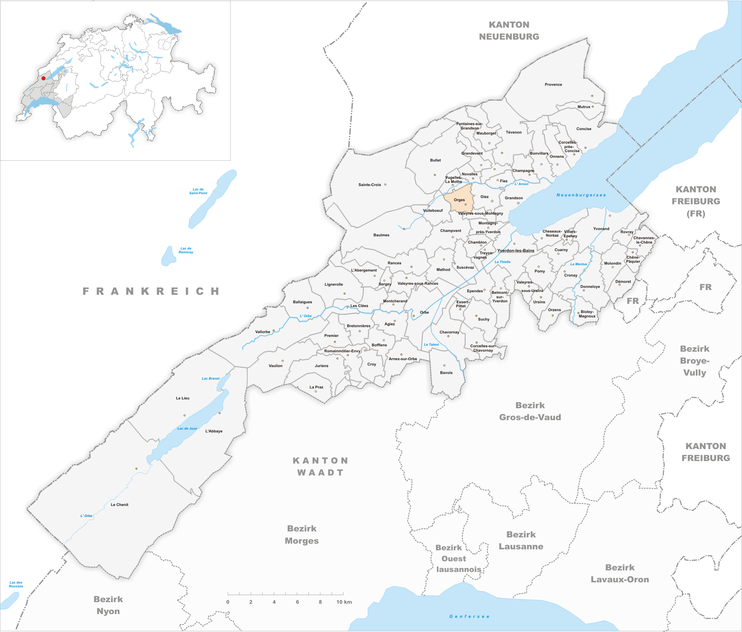 Municipality Orges